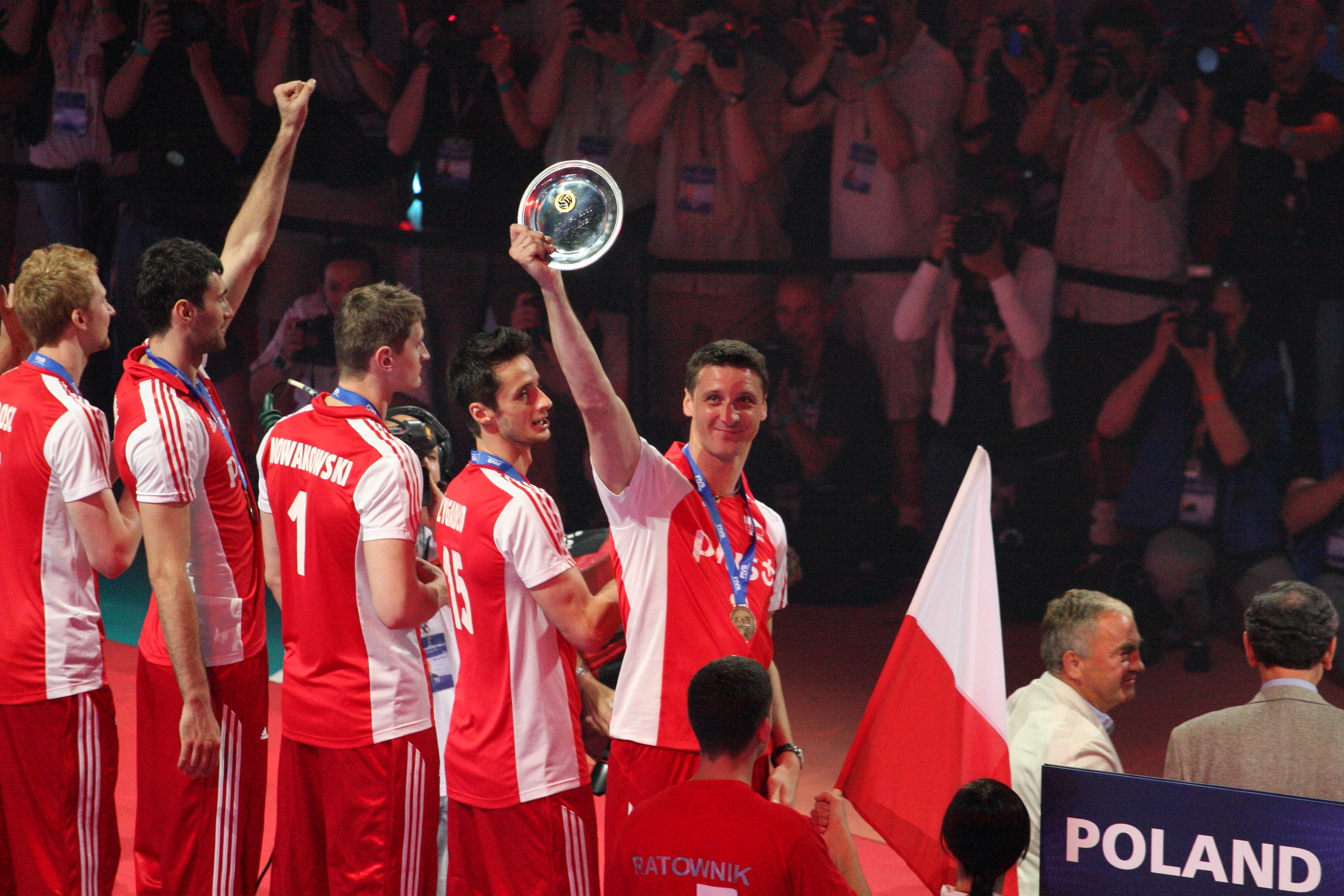 World League Final, Gdańsk 2011 Poland vs Argentina; 3 m.